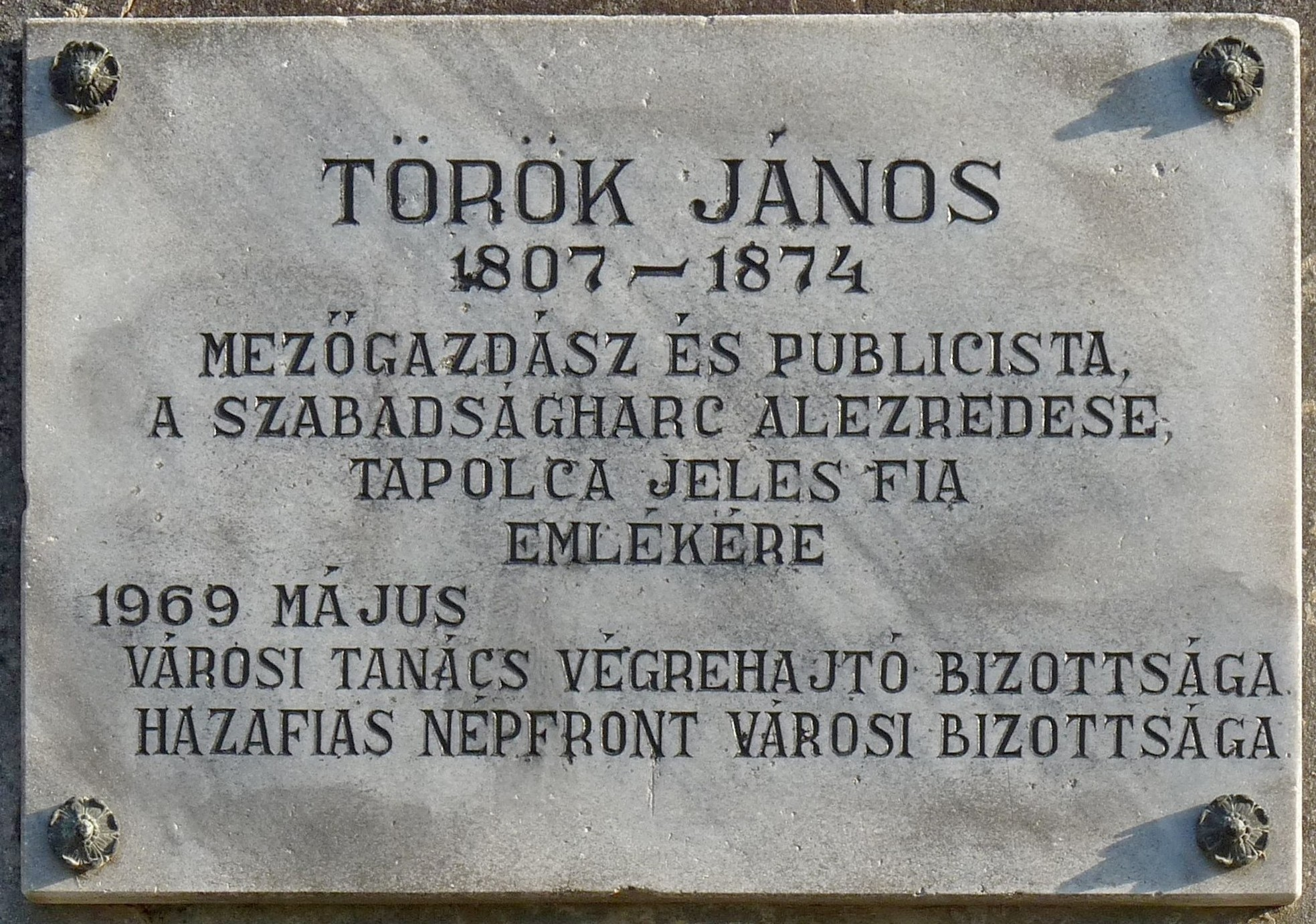 Commemorative plaque to Mr. János Török (1807–1874) lieutenant-colonel during the Hungarian Revolution of 1848–49, a native of the town of Tapolca. It is affixed on the Pantheon Wall of the city. (Tapolca, Batsányi János Square)